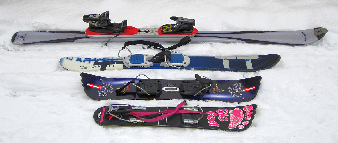 Hypercarver skis and skiboards, from top to bottom: Salomon Axecleaver 10 with riser plate, length 152 cm, sidecut (mm) 108-68-98, radius 10 m Blizzard Carvelino TT, length 99 cm, sidecut 100-77-88, radius 8.2 m Kneissl Bigfoot Trick, length 75 cm, sidecut 130-102-130, radius 4 m Kneissl bigfoot Original, length 65 cm, sidecut 130-102-110, radius 4 m